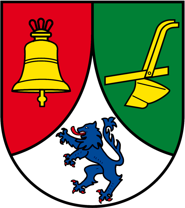 Coat of arms of Schwarzen